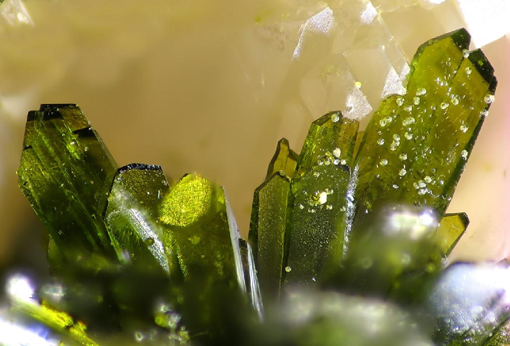 Rodalquilarite Locality: Wendy open pit, Tambo Mine, El Indio deposit, Elqui Province, Coquimbo Region, Chile (Locality at ) Picture width 4 mm. Collection and photograph Christian Rewitzer This Photo was Photo of the Day - 18th Aug 2008